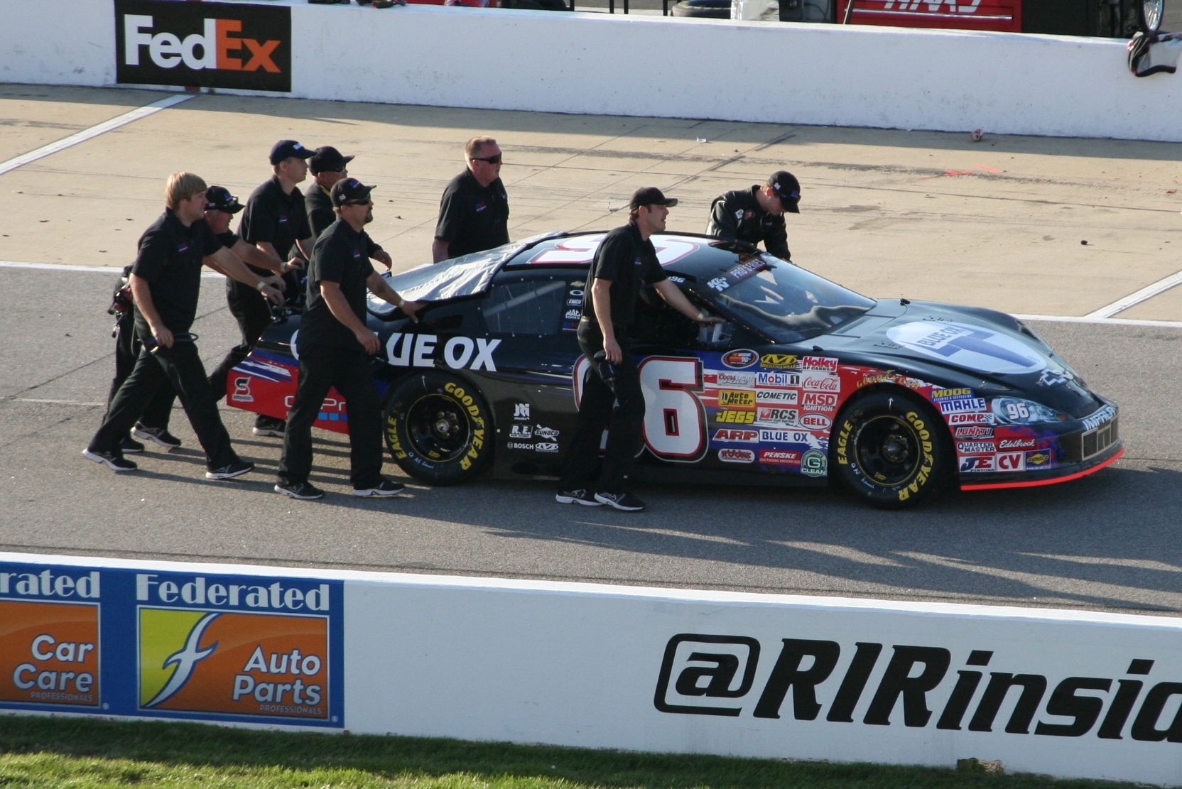 Ben Kennedy's No. 96 Chevrolet is pushed on pit road at Richmond International Raceway before the NASCAR K&N Pro Series East Blue Ox 100, April 25 2013.